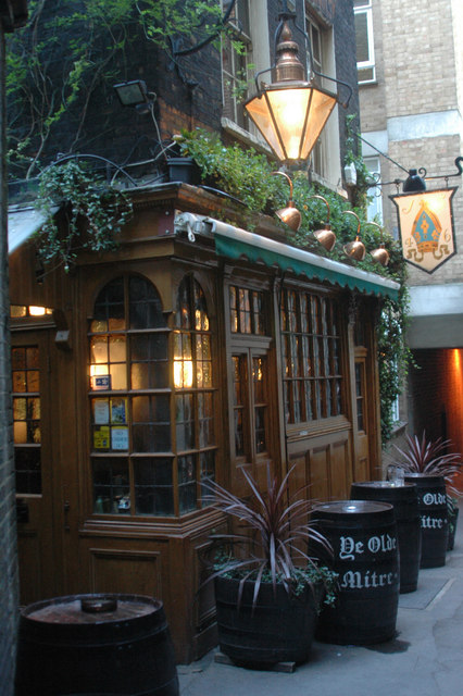 Ye Olde Mitre Tavern The first pub on this site was built in 1546. The place is notoriously difficult to find.